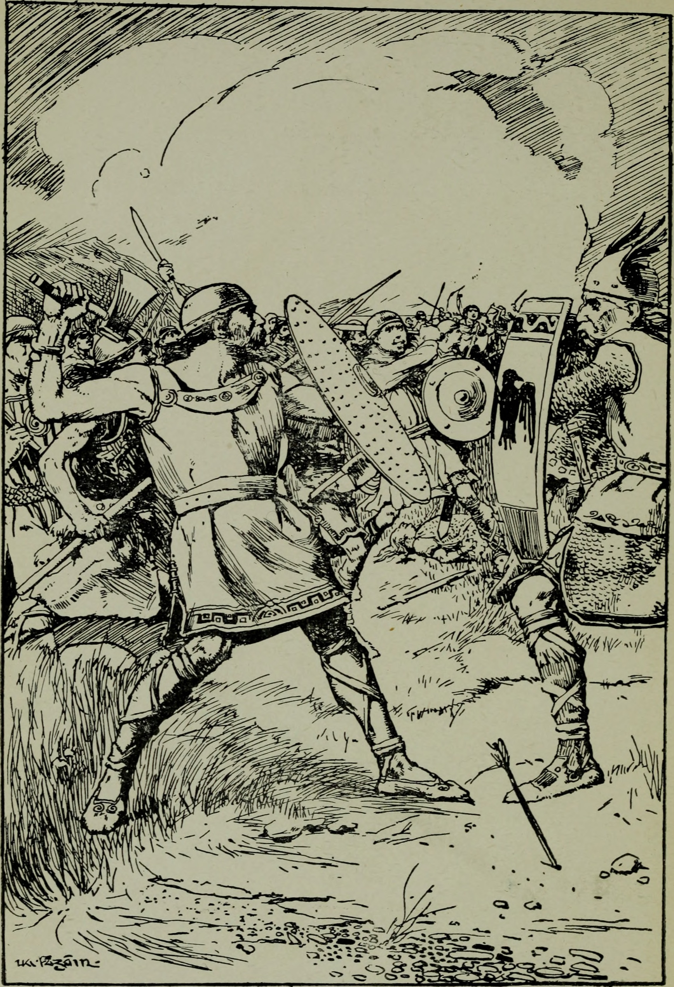 Title: Stair-ċeaċta. sgéalta gearra ar neiṫiḃ & ar ḋaoiniḃ i seanċas na hÉireann Year: 1905 (1900s) Authors: Ó Neachtain, Eoghan Subjects: Irish language Publisher: Baile Áṫa Cliaṫ : Connraḋ na Gaeḋilge Text Appearing Before Image: V: 1 c §an BOSTON COLLEGE LIBRARY UNIVERSITY HEIGHTSCHESTNUT HILL, MASS. Books may be kept for two weeks and may berenewed for the same period, unless reserved. Two cents a day is charged for each book keptovertime. If you cannot find what you want, ask theLibrarian who will be glad to help you. The borrower is responsible for books drawnon his card and for all nnes accruing on the same. 11 flfilíil mflt islH ! I ; j íj Text Appearing After Image: caú ótuAtiA c^ifib. te^tMji a hAon Scai r - CeAócAs .1. SgéAlc-A se^nn^ ^\\ tieiCiO ) ^n óAomio i Seánó-ap v\a tiéine-Atin, •00 rsttíob eo$An ó neACCAin.staireatasgaltag00neac